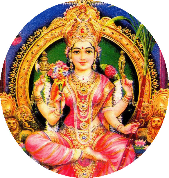 Lalita Tripurasundari, Goddess Shakti